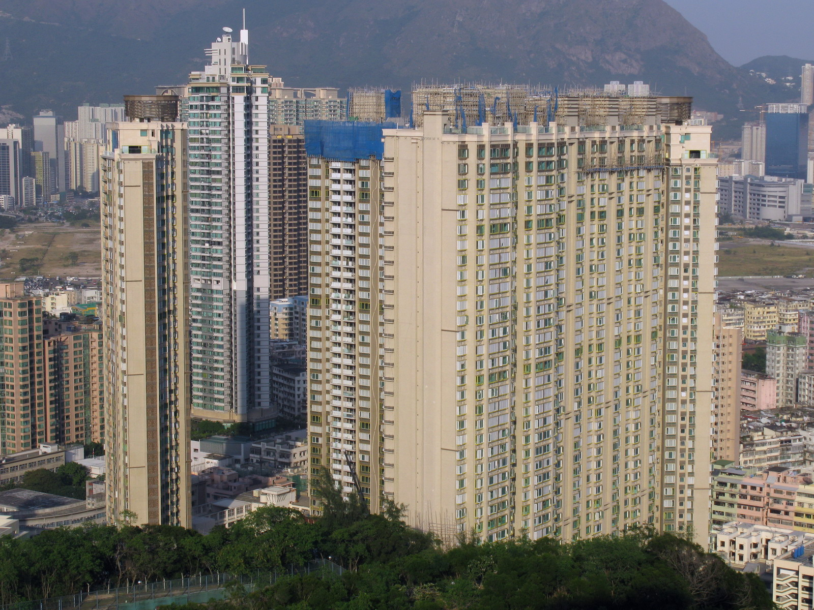 Celestial Heights, Ho Man Tin (2008/11)